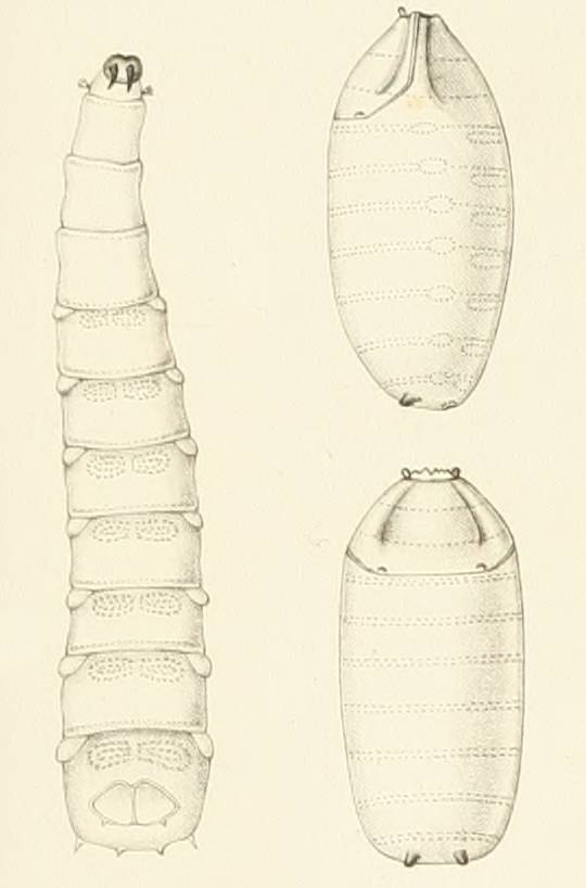 Original name Helomyza tuberivora (valid synonym Suillia gigantea) - larva and pupa